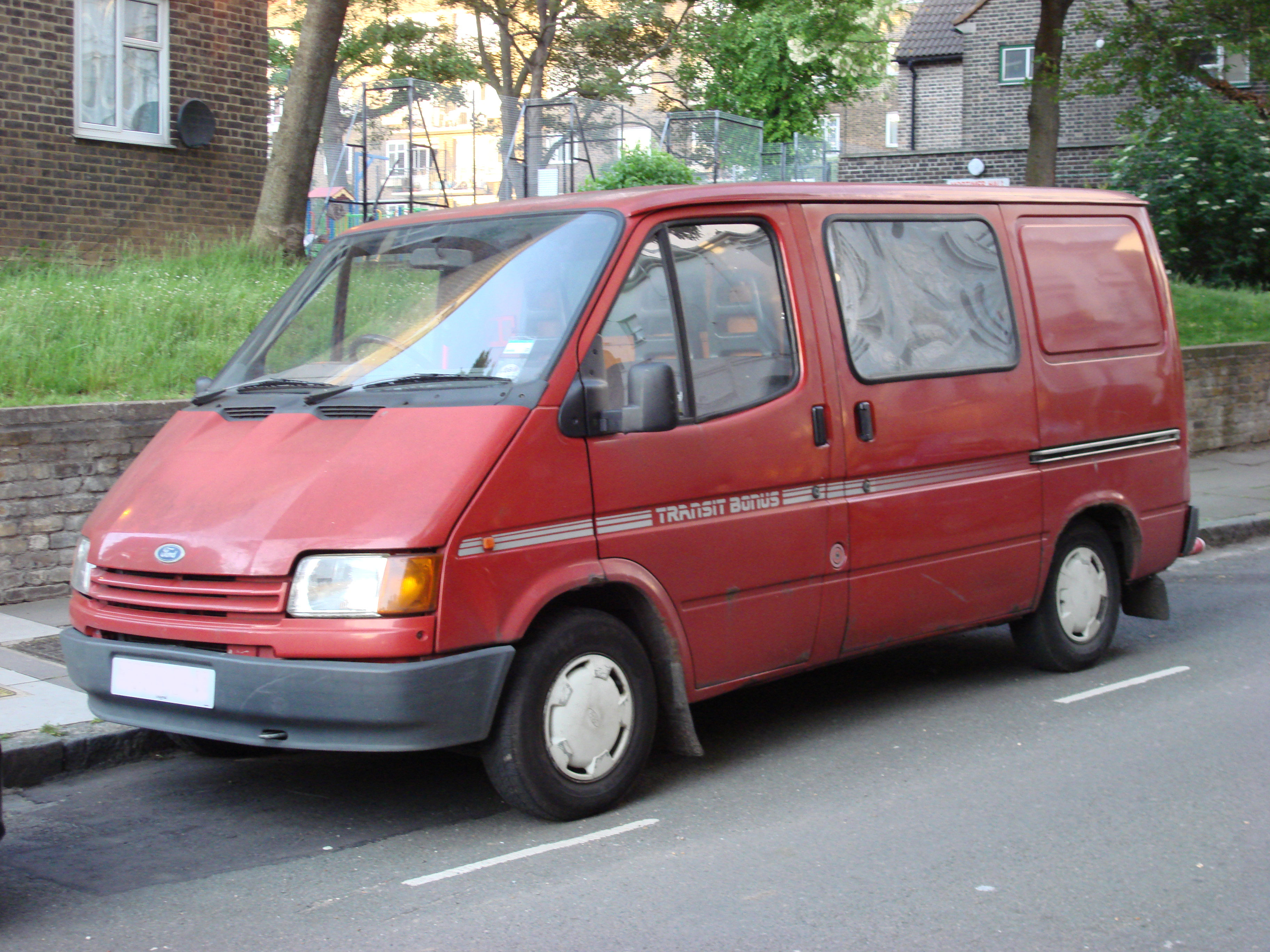 Ford Transit Van